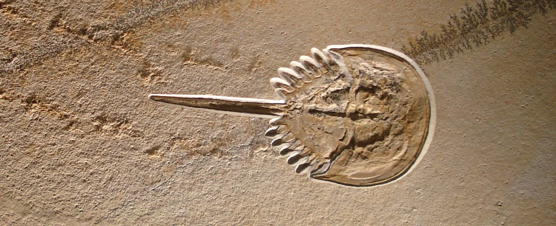 Mesolimulus an extinct arthropod